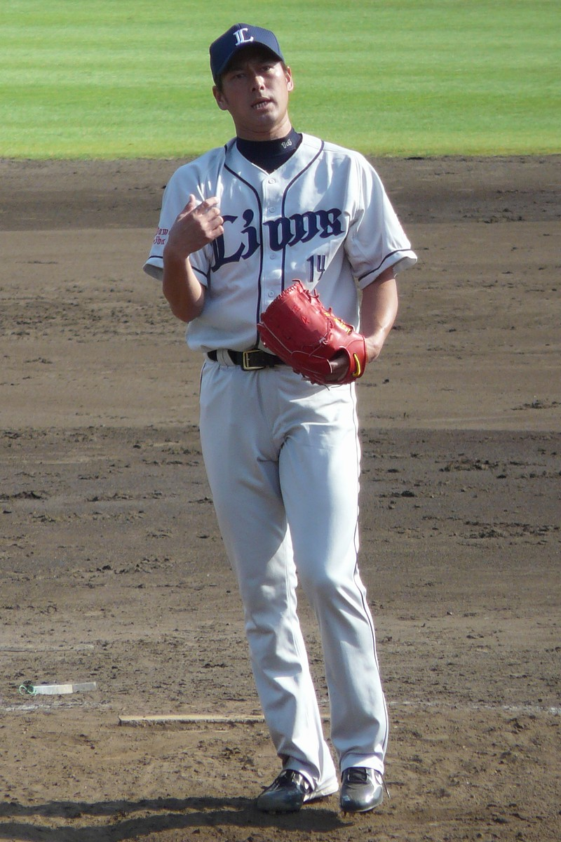 Chikara Onodera, pitcher of the Saitama Seibu Lions, at Yomiuri Giants Stadium.